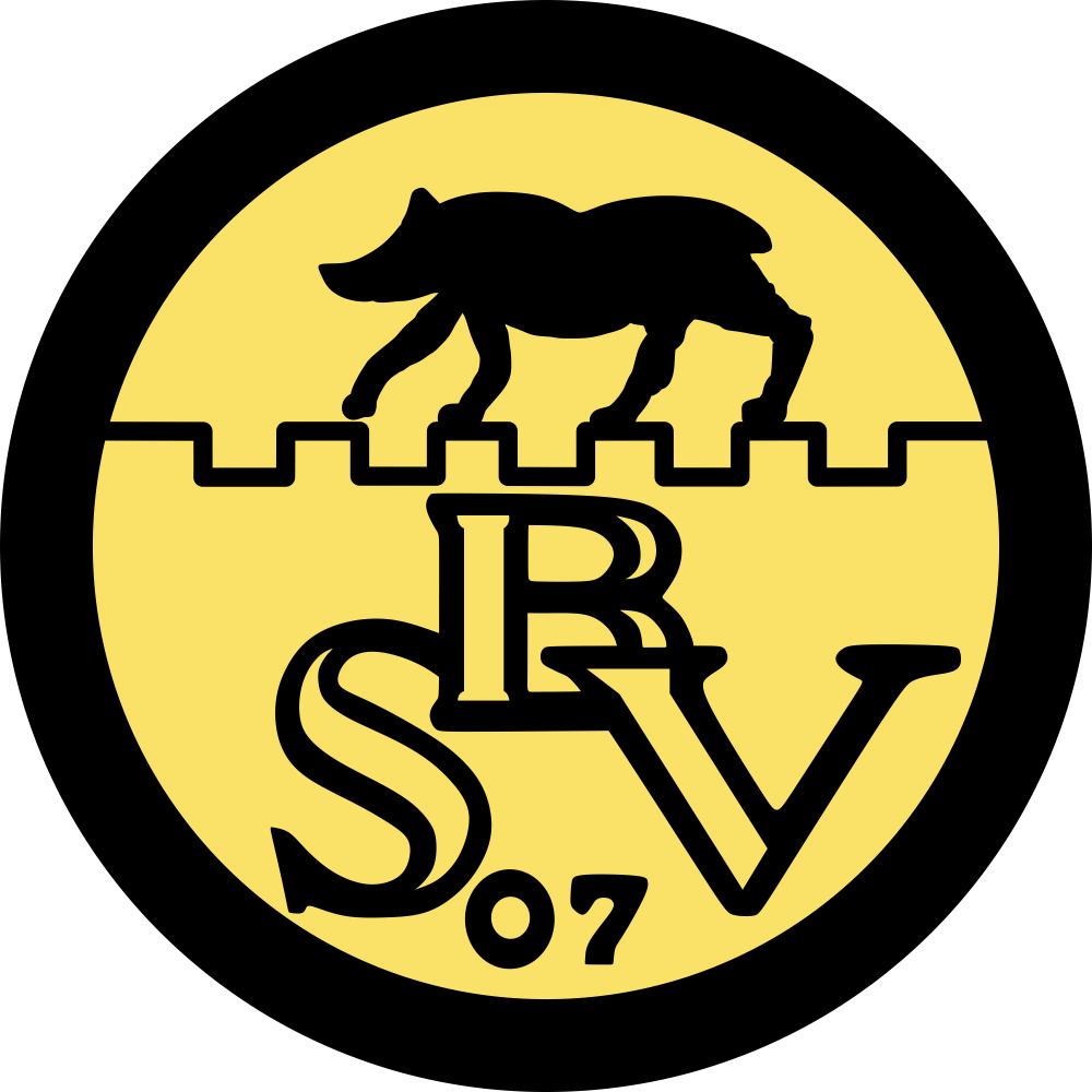 Logo of former german sportclub SV 07 bernburg (1907-1945)